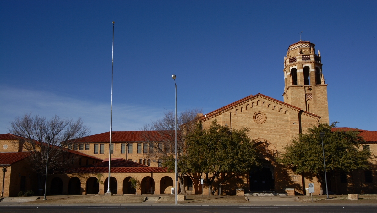 Lubbock High School, Lubbock, Texas